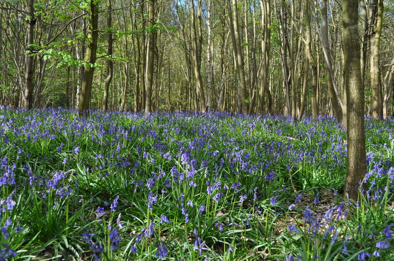 Bluebell Carpet at Sisland Wood, near to Sisland, Norfolk, Great Britain. A wonderful display at my local woodland.